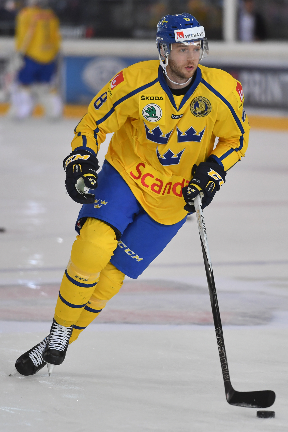 6/4/2017, Vienna, Austria, Sport, Ice Hockey, Friendly match Austria vs Sweden.